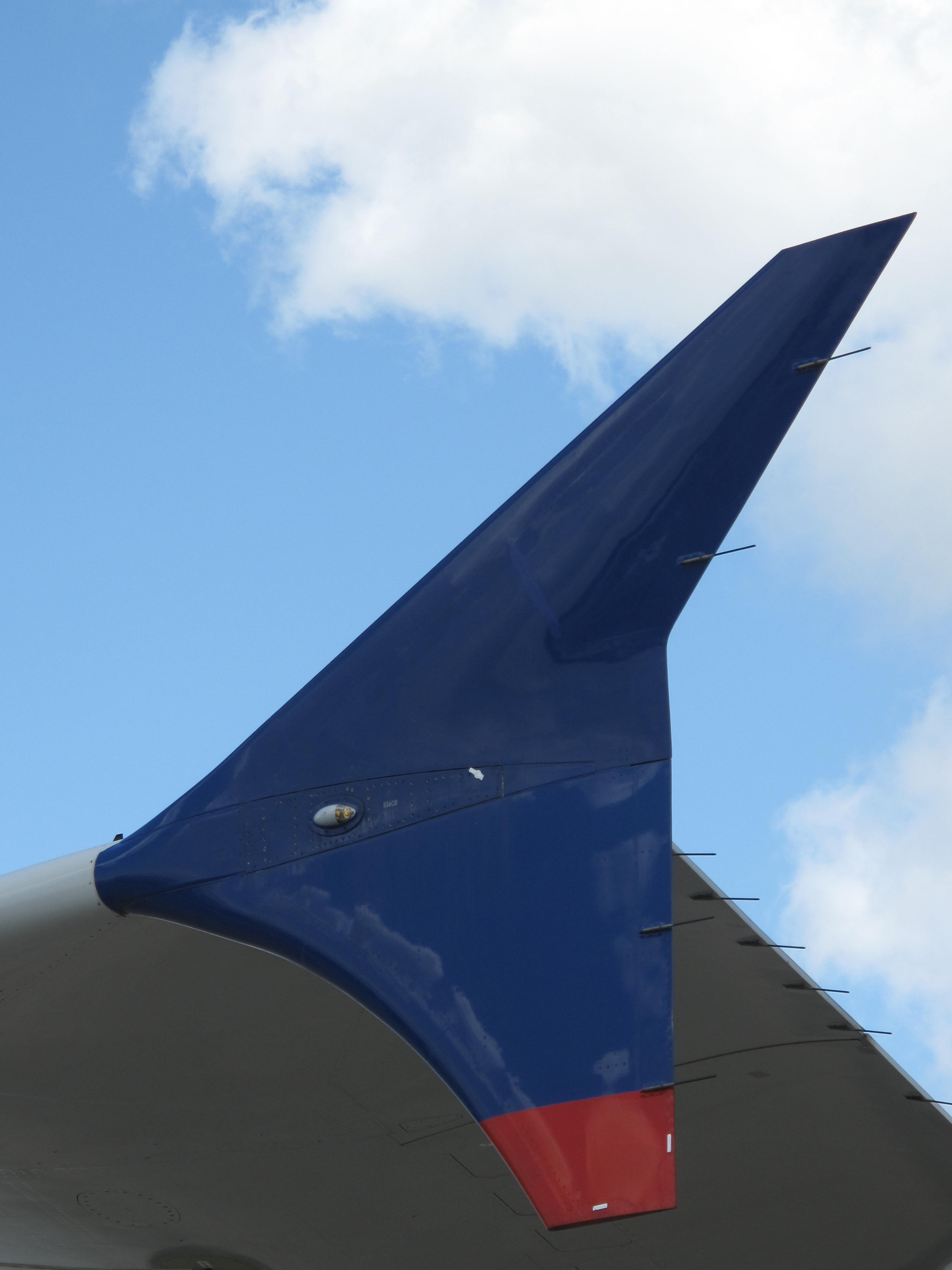 Winglet of an Airbus A380 at the Paris Air Show 2009